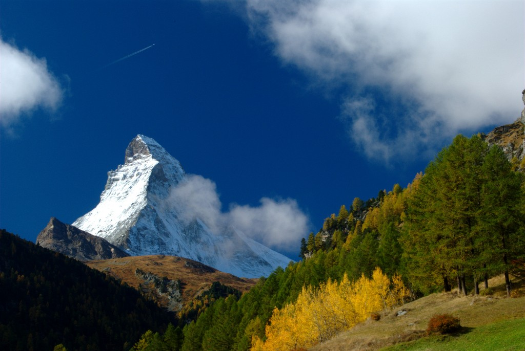 The Matterhorn from above Zermatt